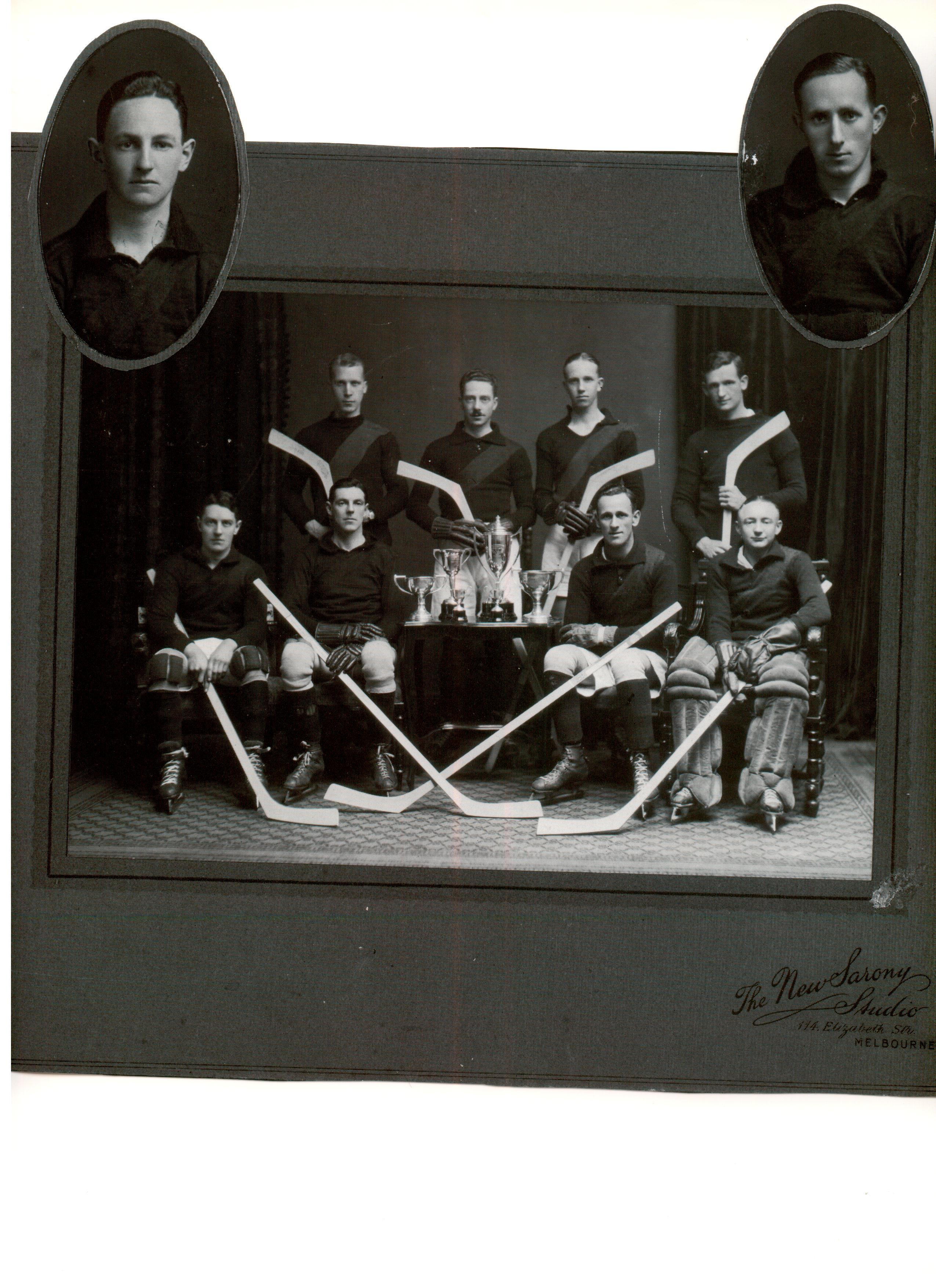 1927 the Essendon Ice Hockey Club as part of the Victorian Ice Hockey Association